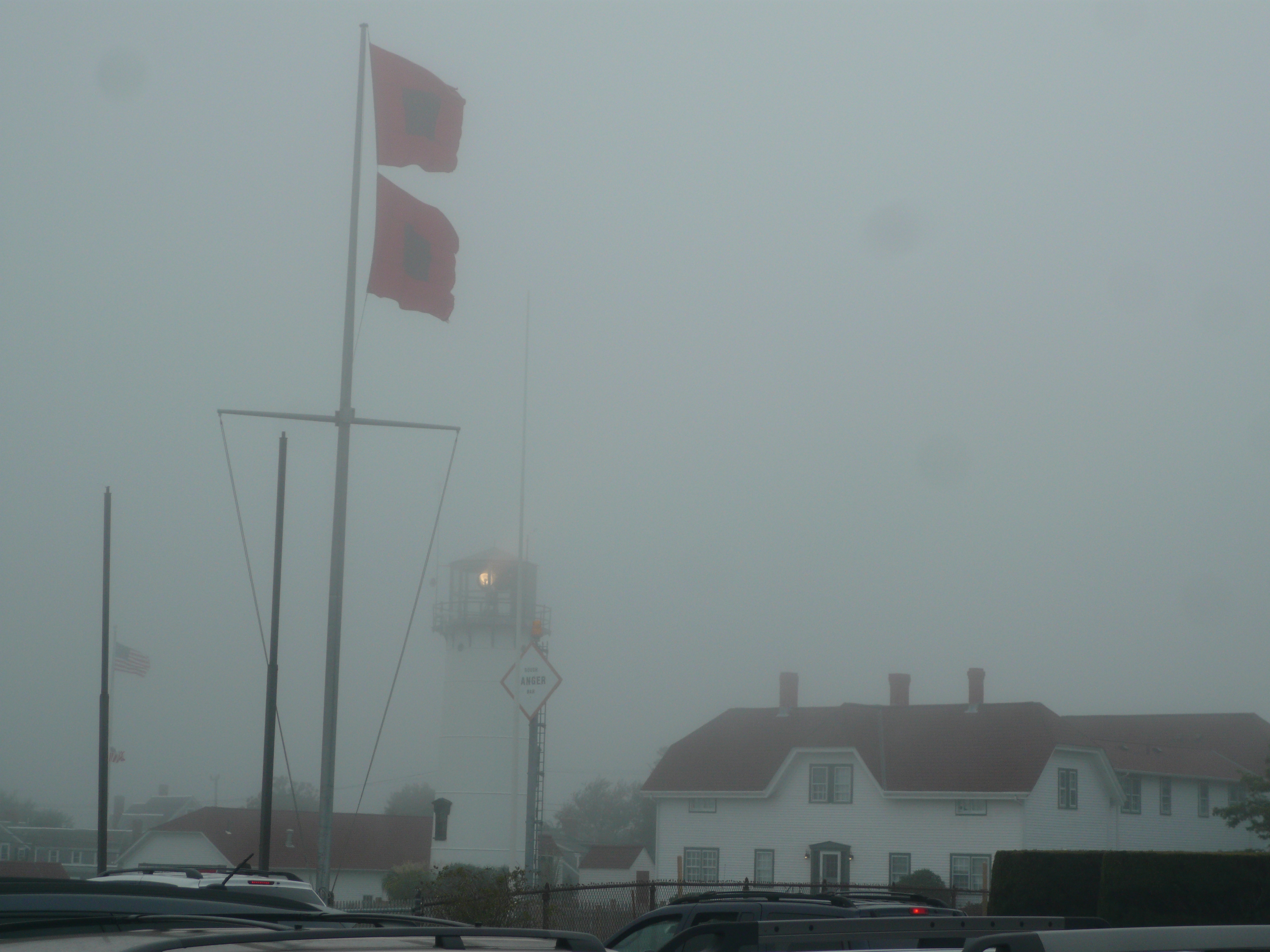 Hurricane Warning flags for Hurricane Earl (2010)